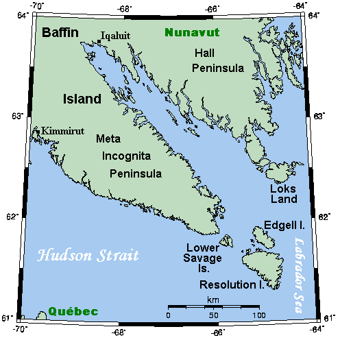 A map showing Frobisher Bay and nearby areas. This map's source is here, with the uploader's modifications, and the GMT homepage says that the tools are released under the GNU General Public License.